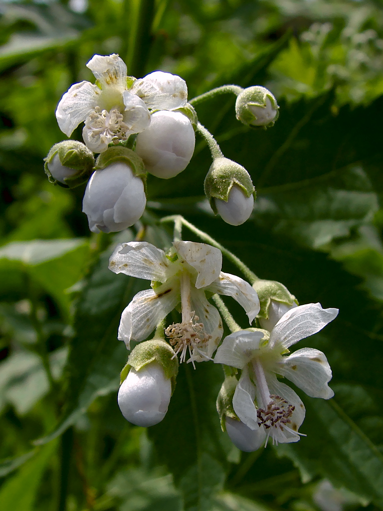 Sida hermaphrodita